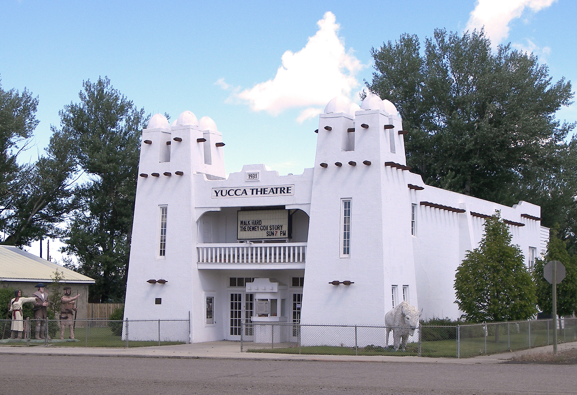 The historic Yucca Theatre in Hysham, Montana, United States. The theater was listed on the National Register of Historic Places on January 7, 1994.